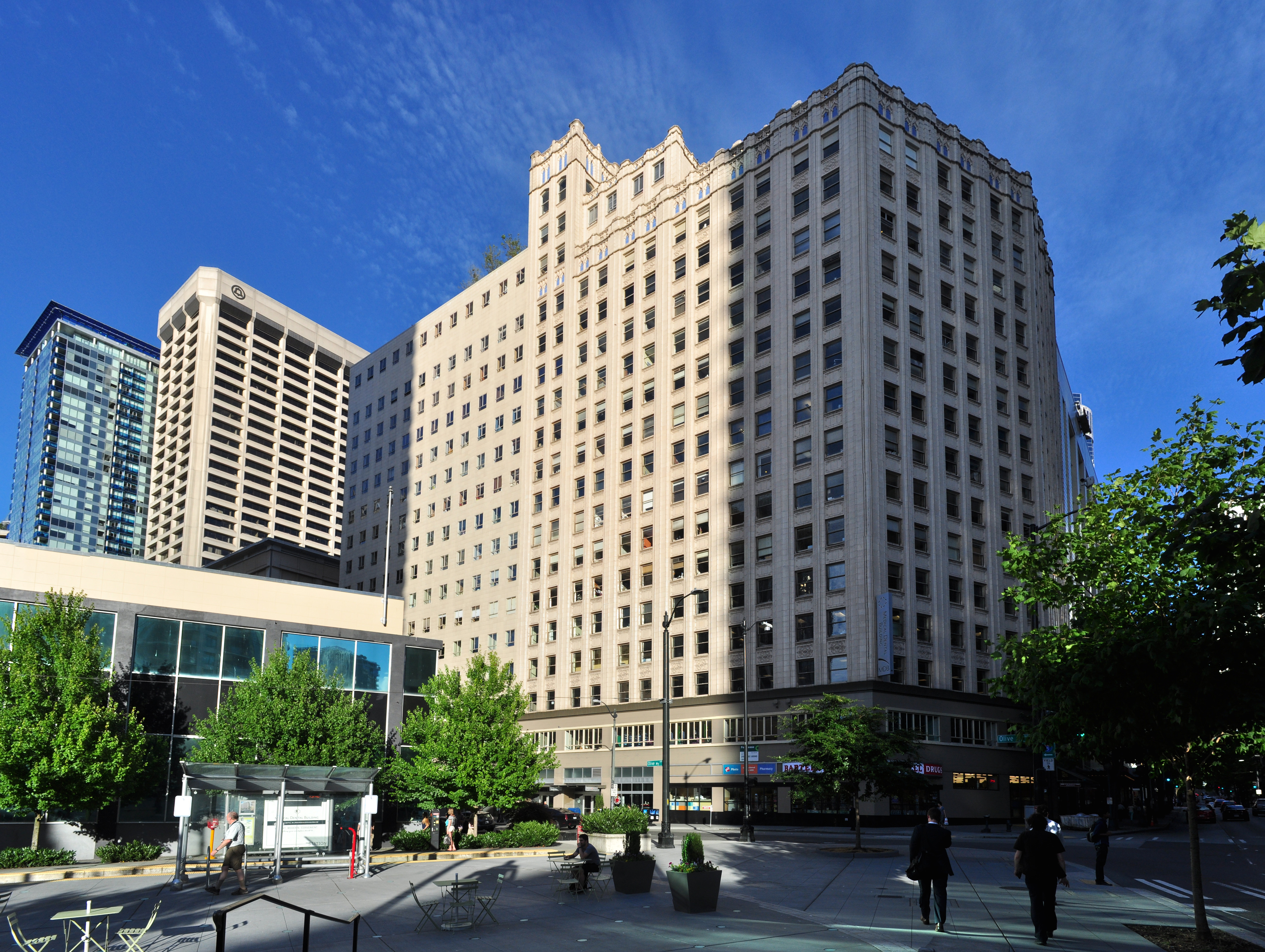 Panoramic view looking roughly east from McGraw Square, a small park between Fifth and Westlake Avenues just south of Stewart Street, Seattle, Washington. A branch of the Bank Of America in the foreground at left; the three tall building are Olive 8, the AT&T building, and the Medical Dental Building (the last of these a city landmark and on the National Register of Historic Places). This image was created with Hugin